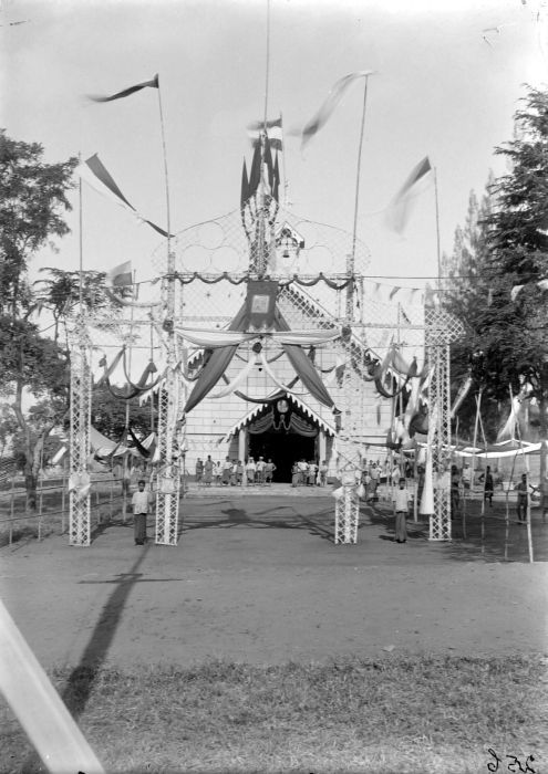 Decorated gate in front of the roman catholic church on a celebration day